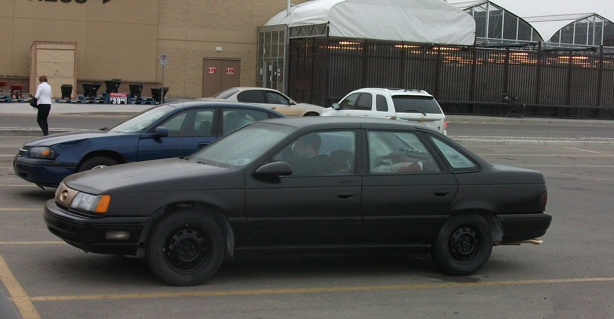 Ford Taurus done in the Robocop flat black and no hub cap style.